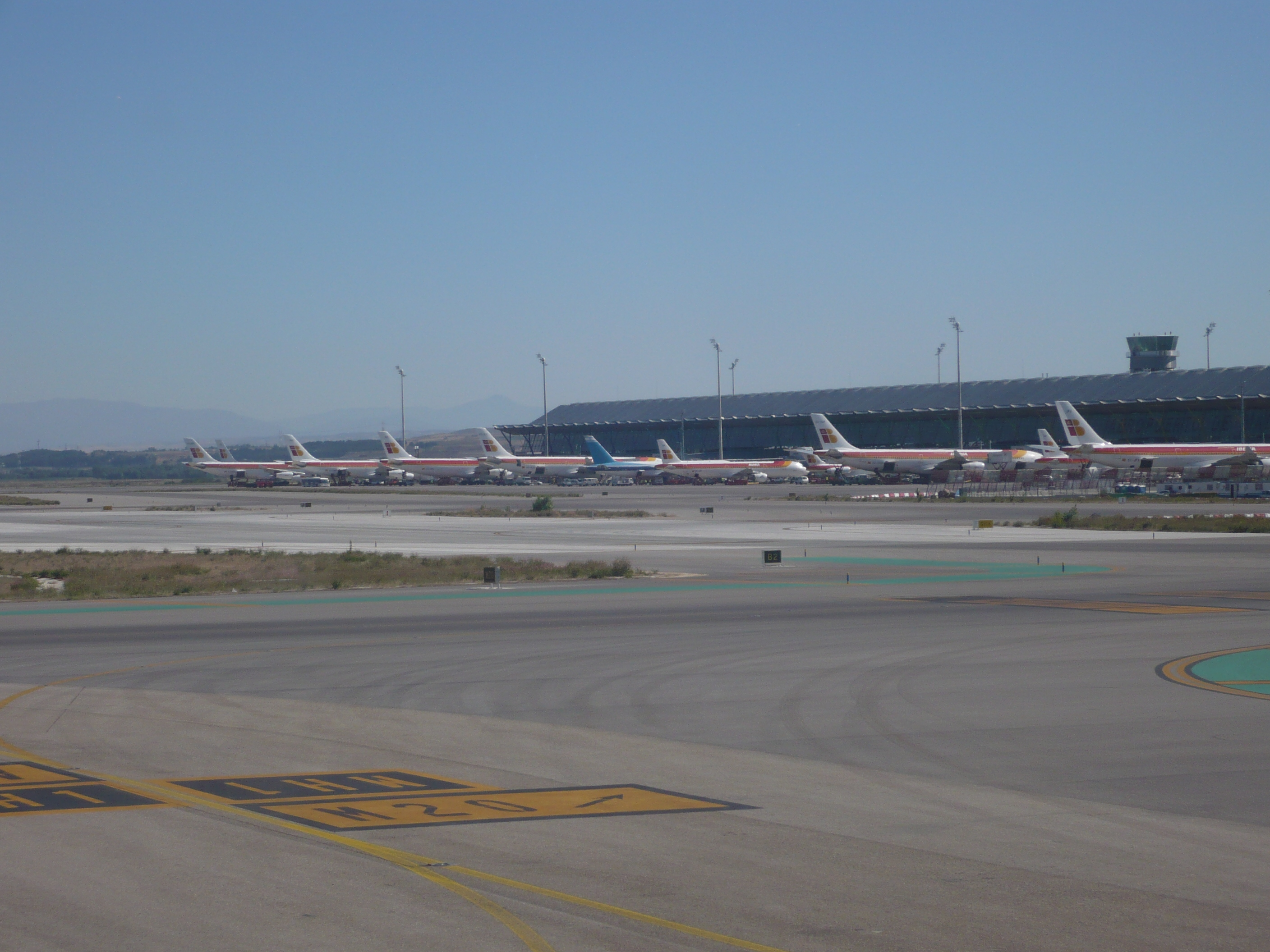 Aircraft at Madrid Barajas' Terminal 4S